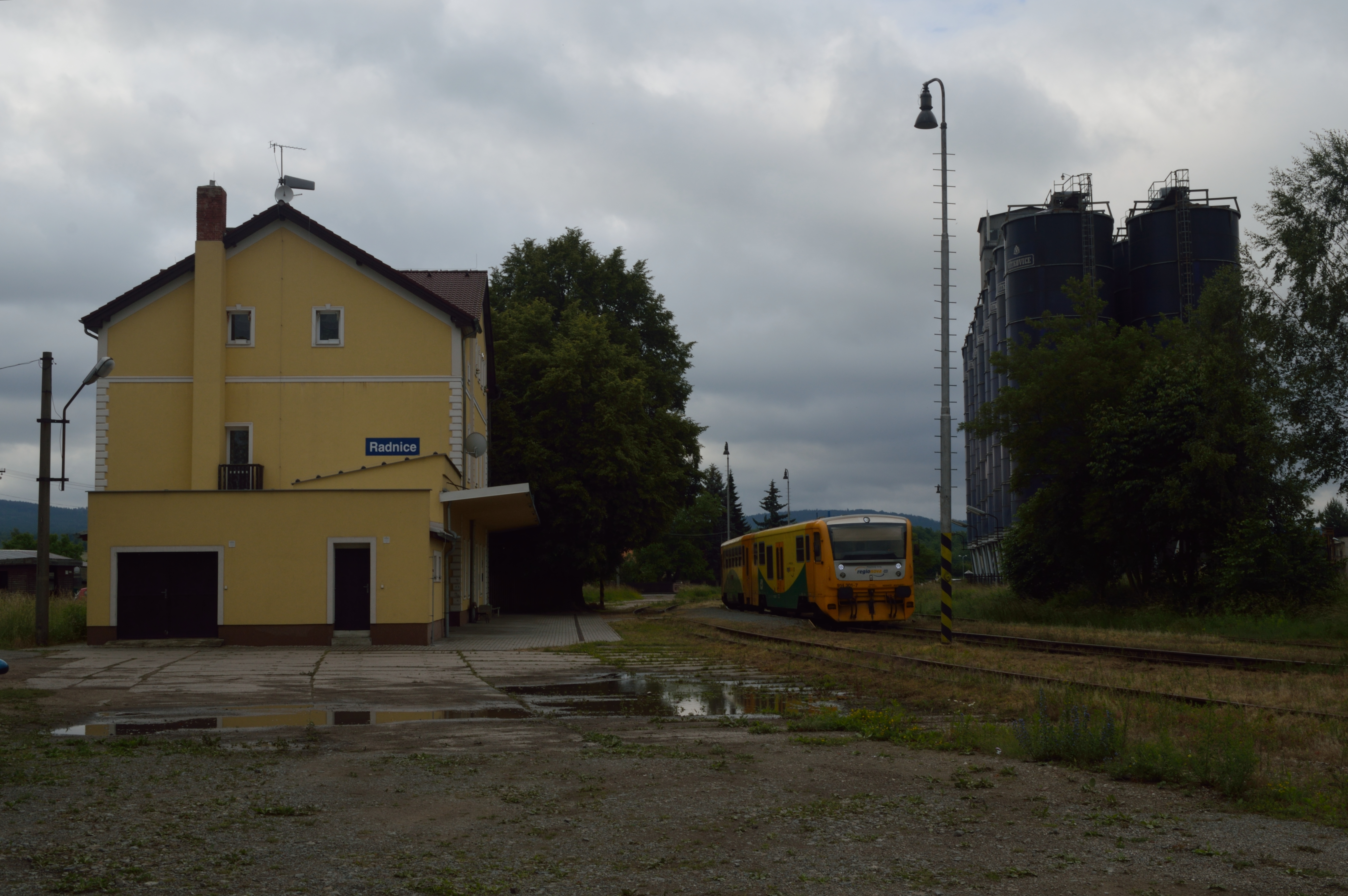 Before departure 814.301 was photographed at Radnice on 22 June 2015. Train Os17809, 08:51 Radnice to Chrást u Plzně.